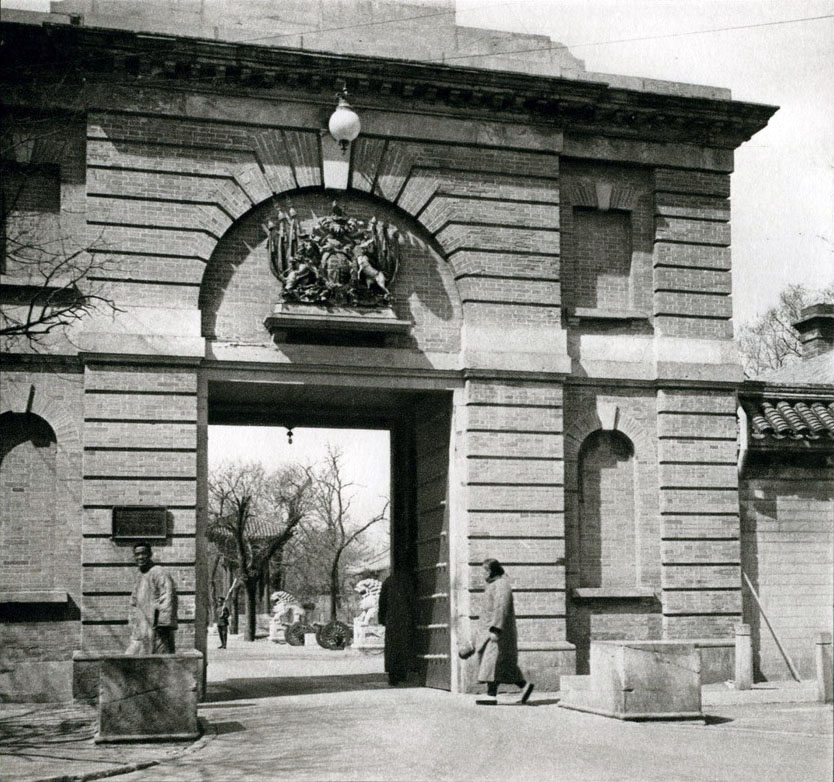 Front of the British Legation in Beijing, China, 1934